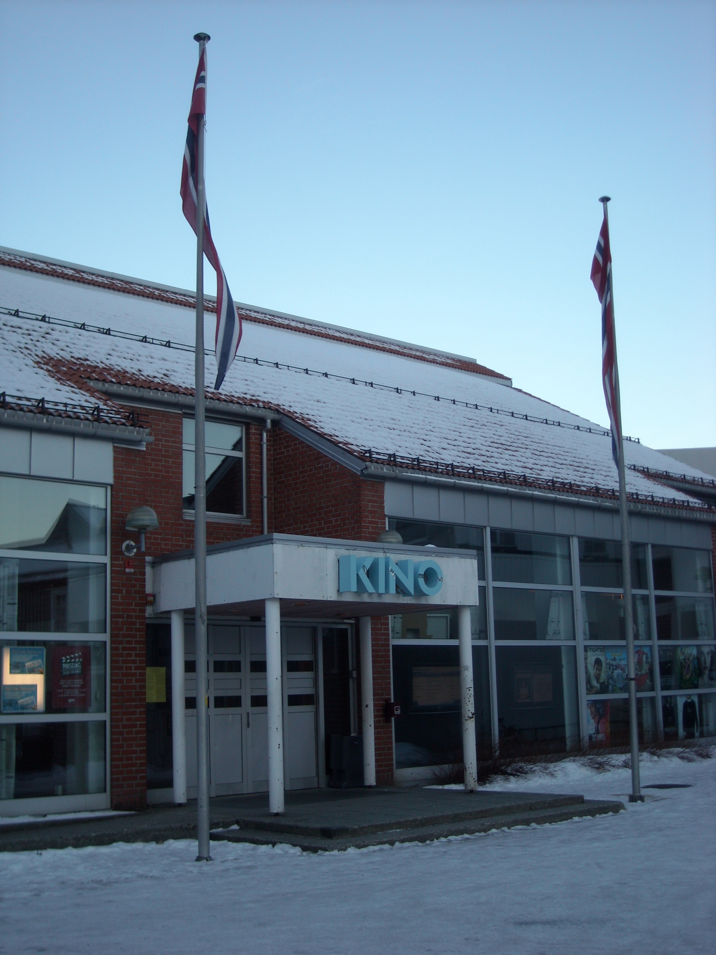 Mosjøen Cinema, Mosjøen in Norway.